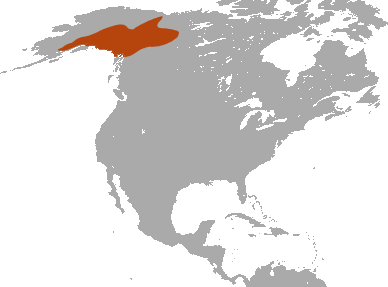 Collared Pika (Ochotona collaris) range